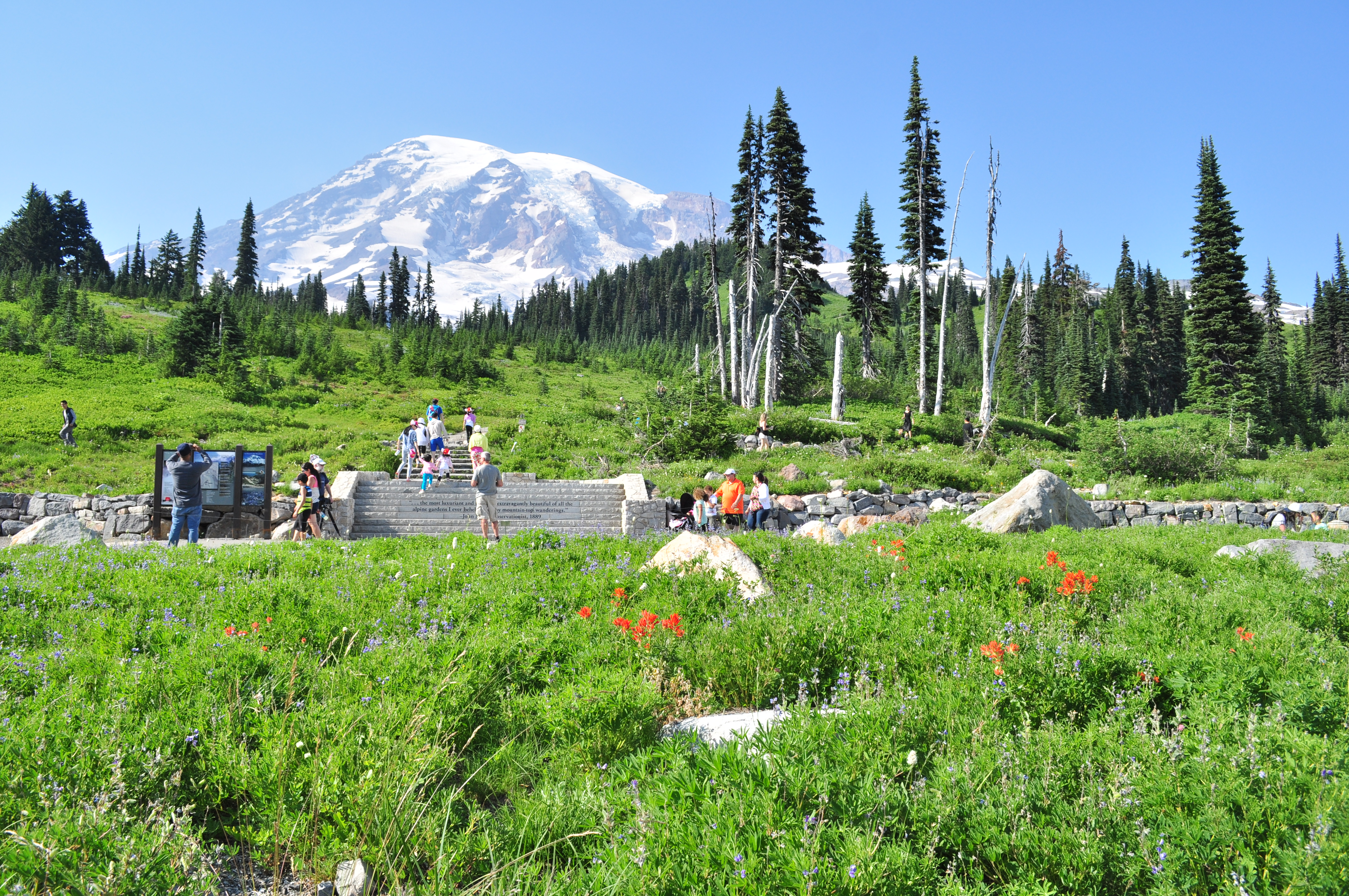 Start of the Skyline Trail near the Jackson Visitor Center, Paradise Historic District, Mount Rainier National Park, Washington state, U.S.